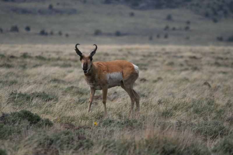 When stopping by the Hart Mountain refuge headquarters, one of the officials told me that it was almost showtime out on the Frenchglen road. I was thinking, sure...like I will see any actual antelope here. But I was wrong.